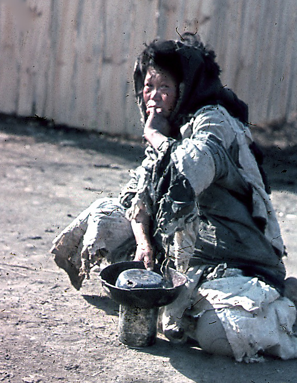 Beggar. I took this on Agfa film somewhere in Seoul during the fall of 1945.